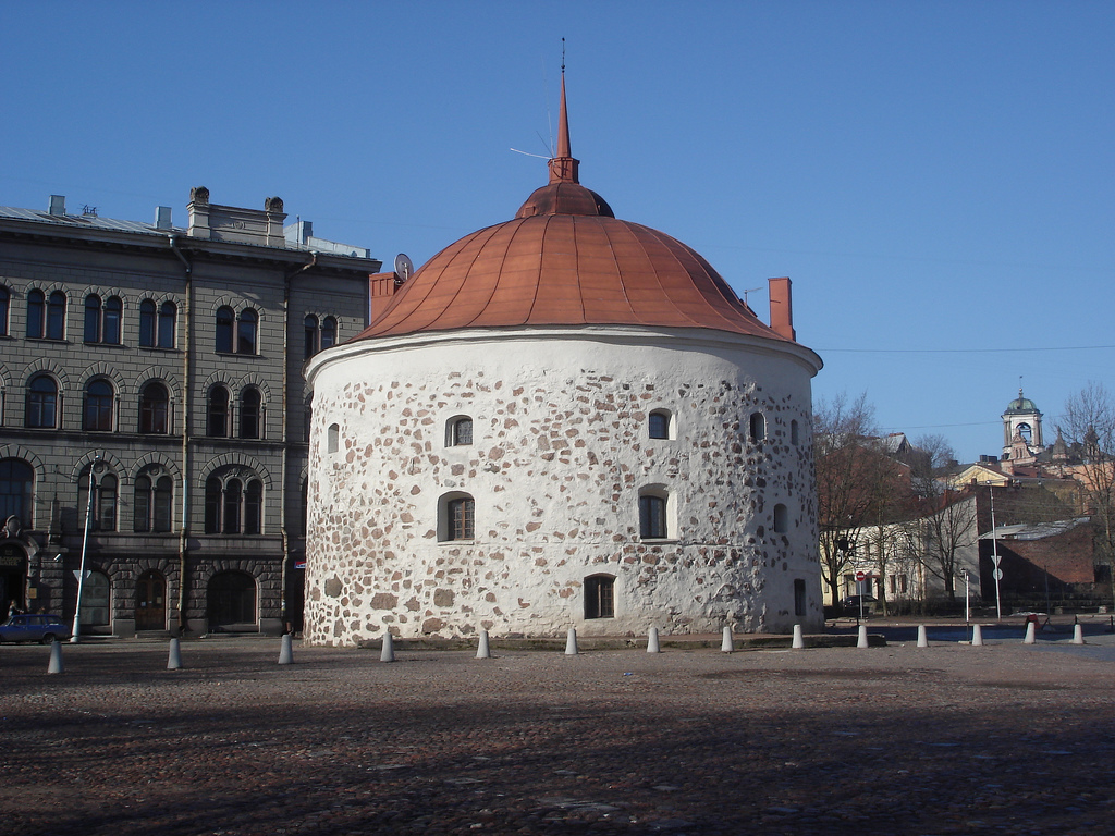 Vyborg Round Tower, Vyborg, Russia, April 2008 by AndrewSyria.